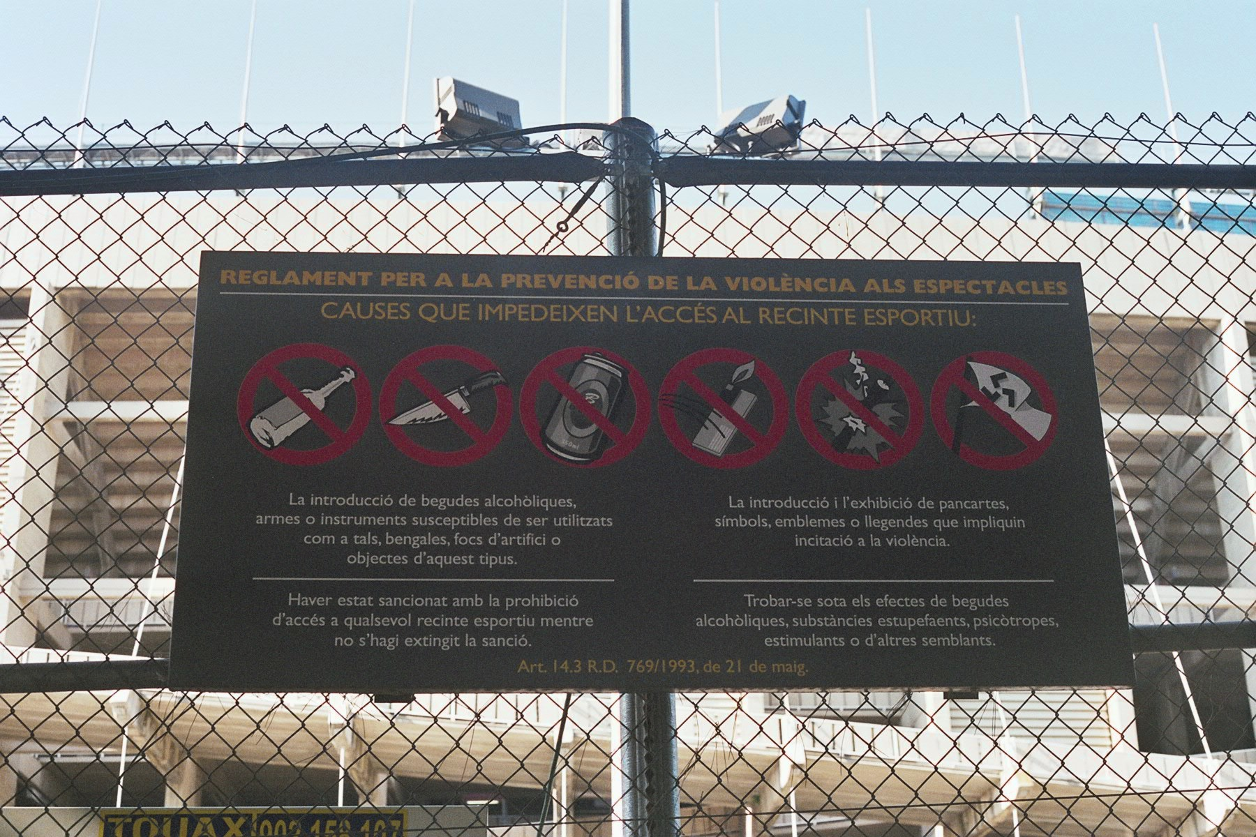 Warning sign in Catalan banning the taking of certain objects into the Camp Nou, which is in the background. Stadium of FC Barcelona (Barça).